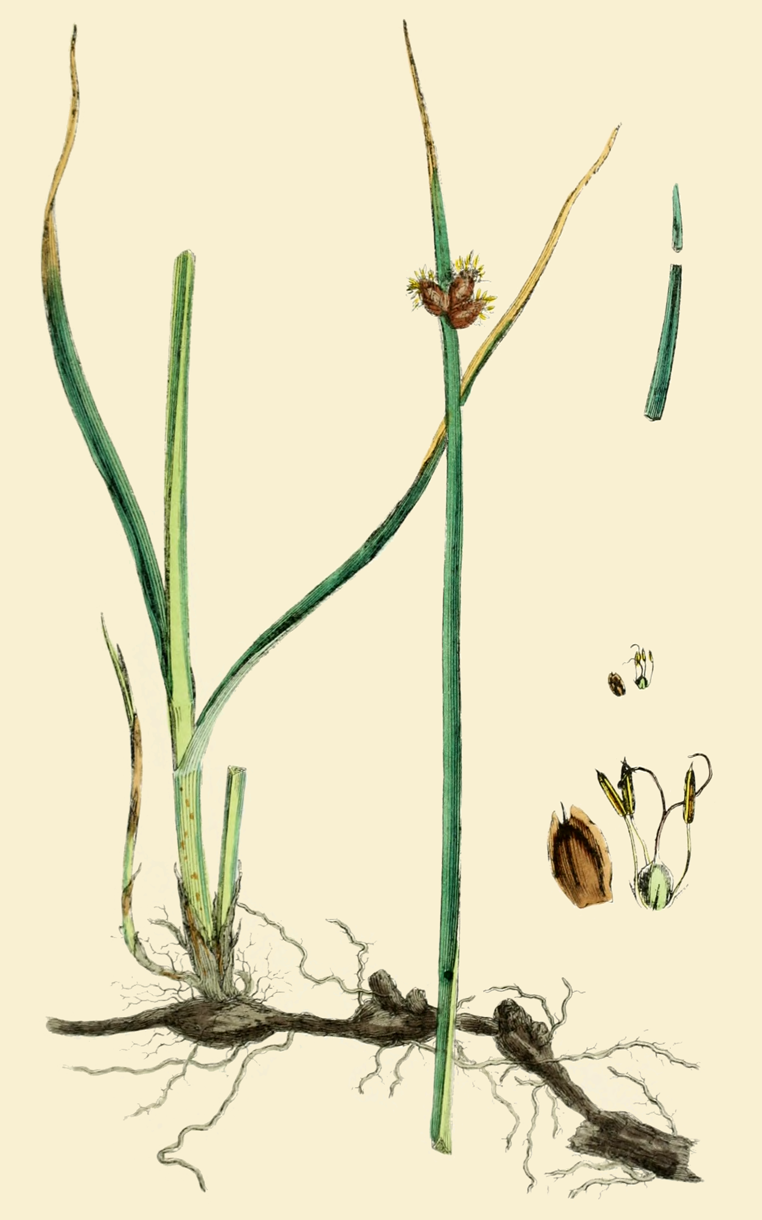 Schoenoplectus pungens from Vol. 10, Plate MDC (1600), captioned Scirpus pungens - Leafy-stemmed Bull-rush.